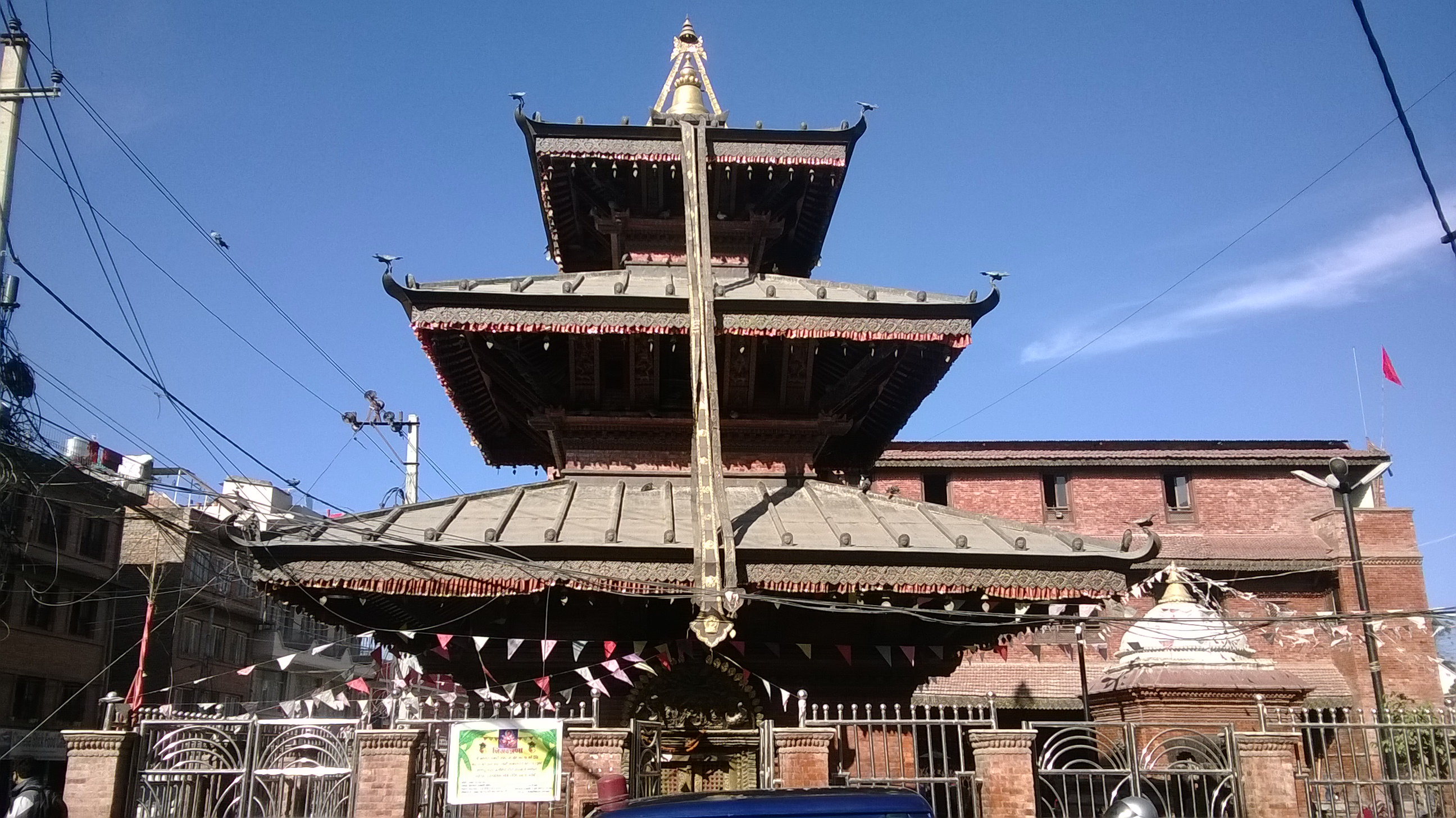 Naxal Bhagawati Temple in Kathmandu.